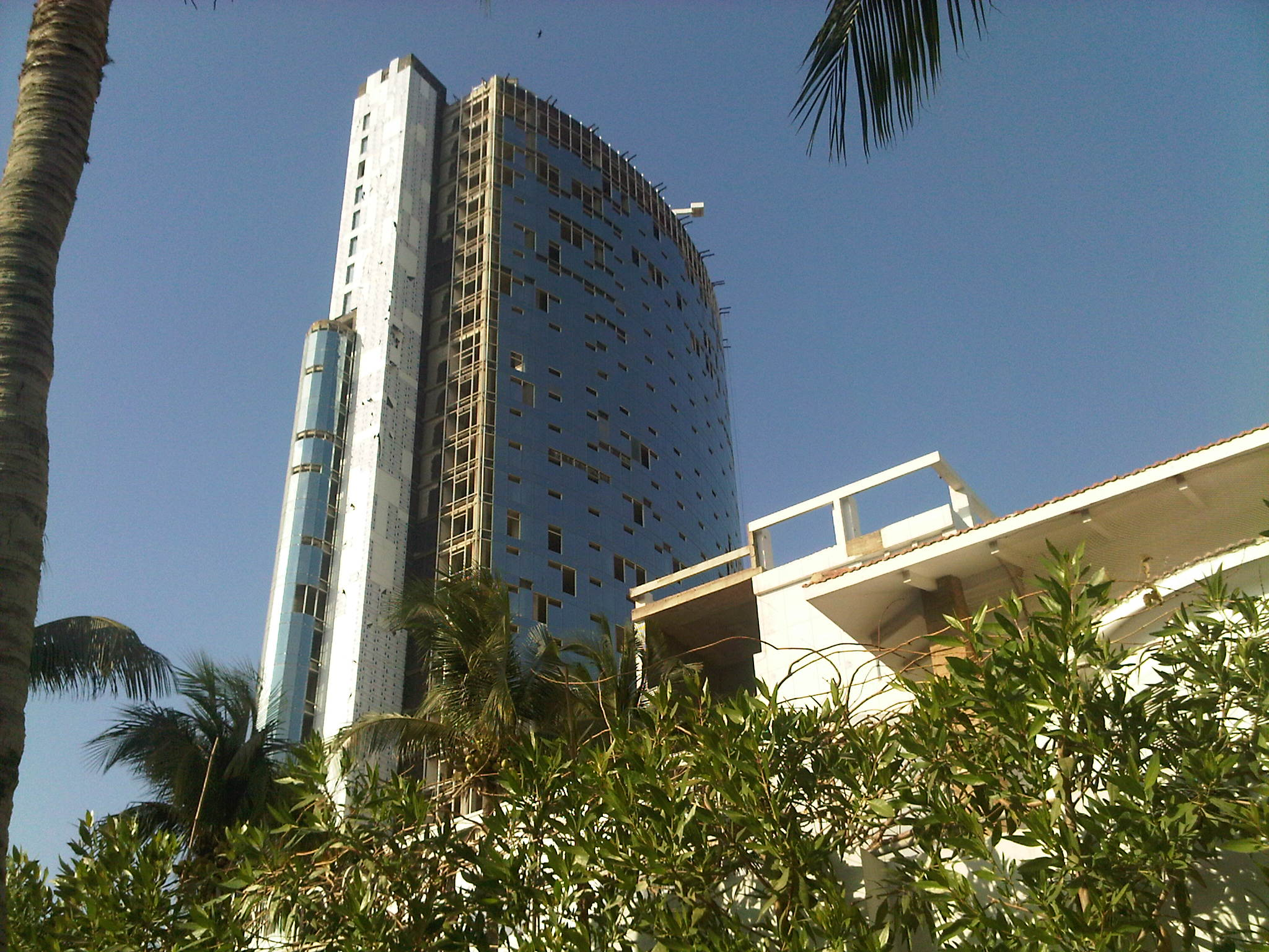 Ocean Towers in Karachi, Pakistan